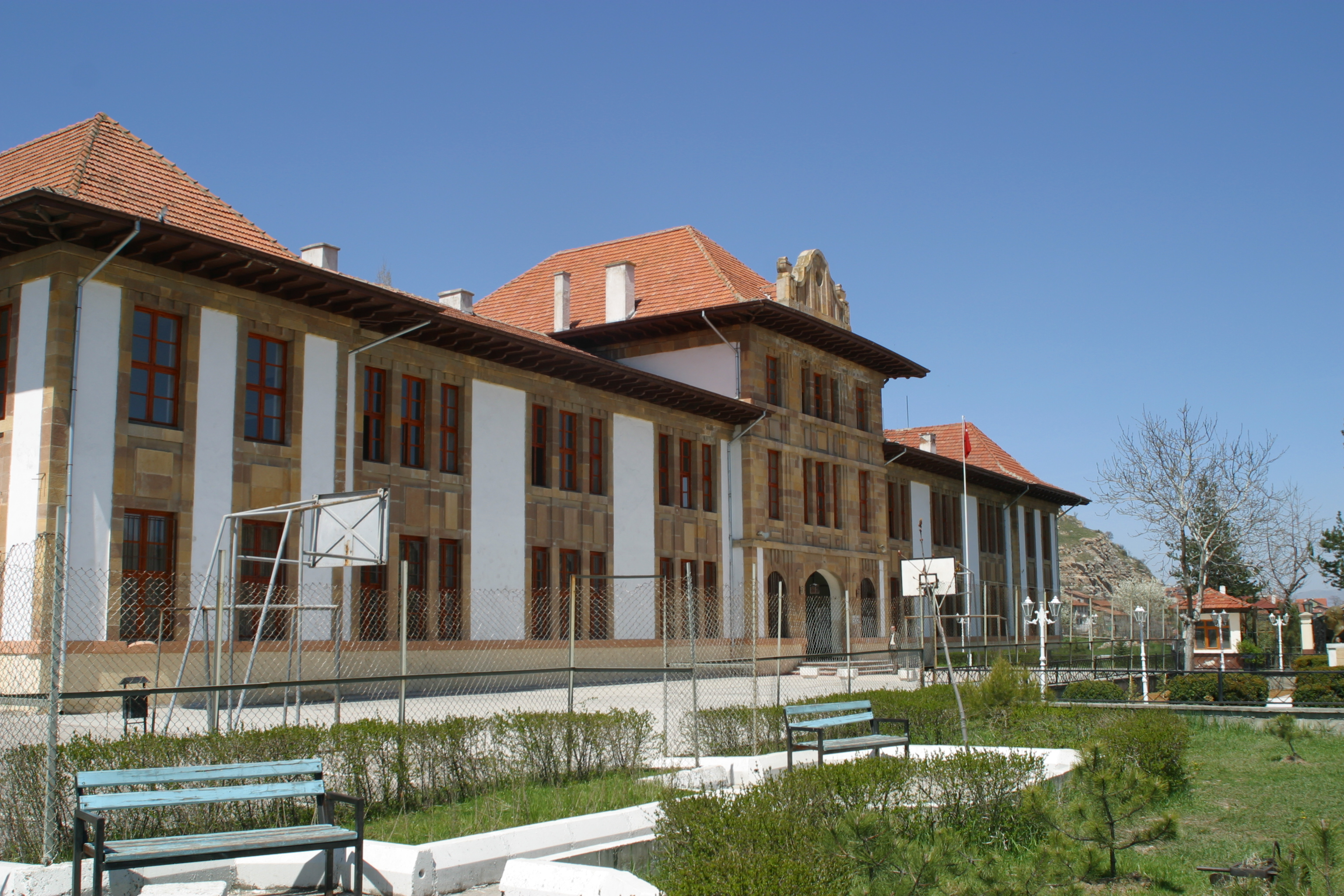 TAŞ MEKTEP E.M.L